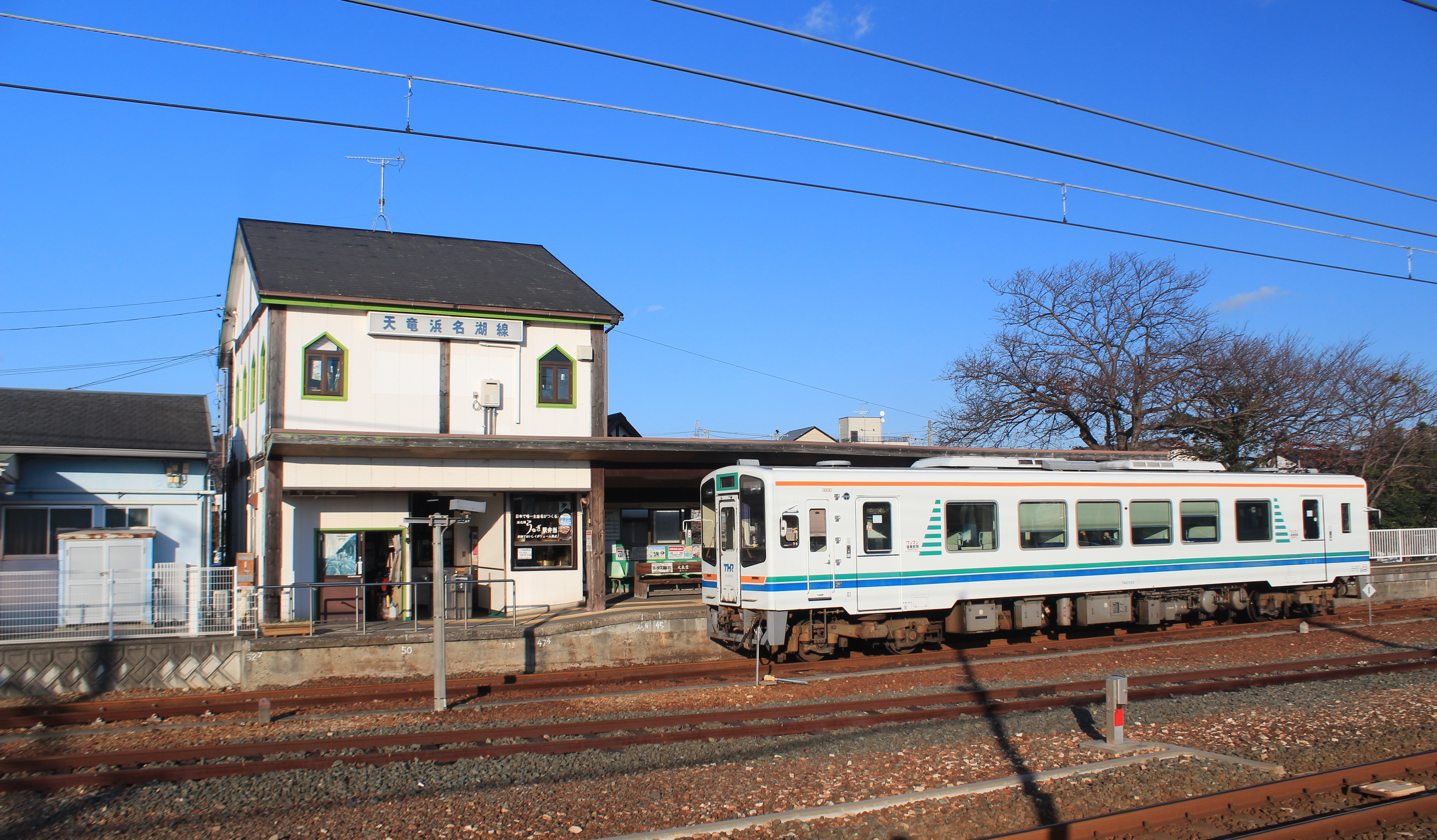 TH2103 in Shinjohara Station, in Kosai, Shizuoka prefecture, Japan.